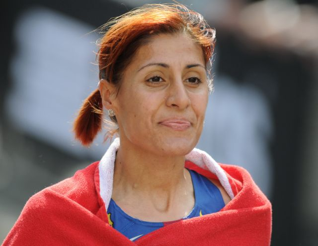 Alessandra Aguilar during Rotterdam Marathon 2008